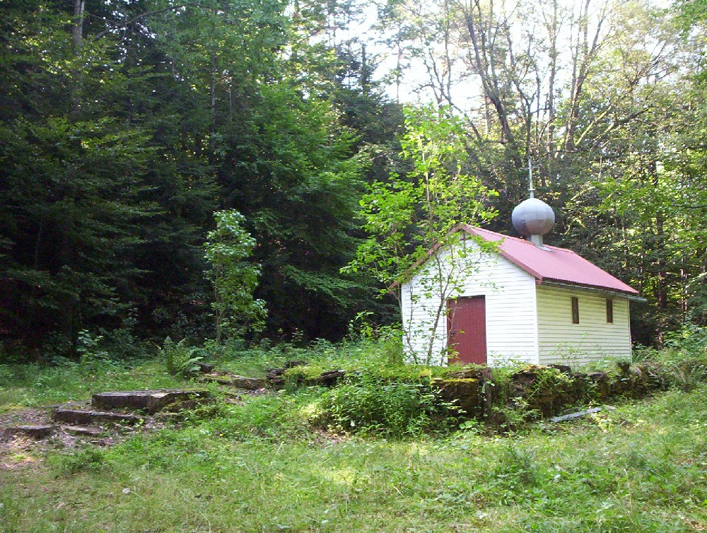 Greek catholic chapel built on remains of greek catholic church in Jawornik, Beskid Niski, Poland.